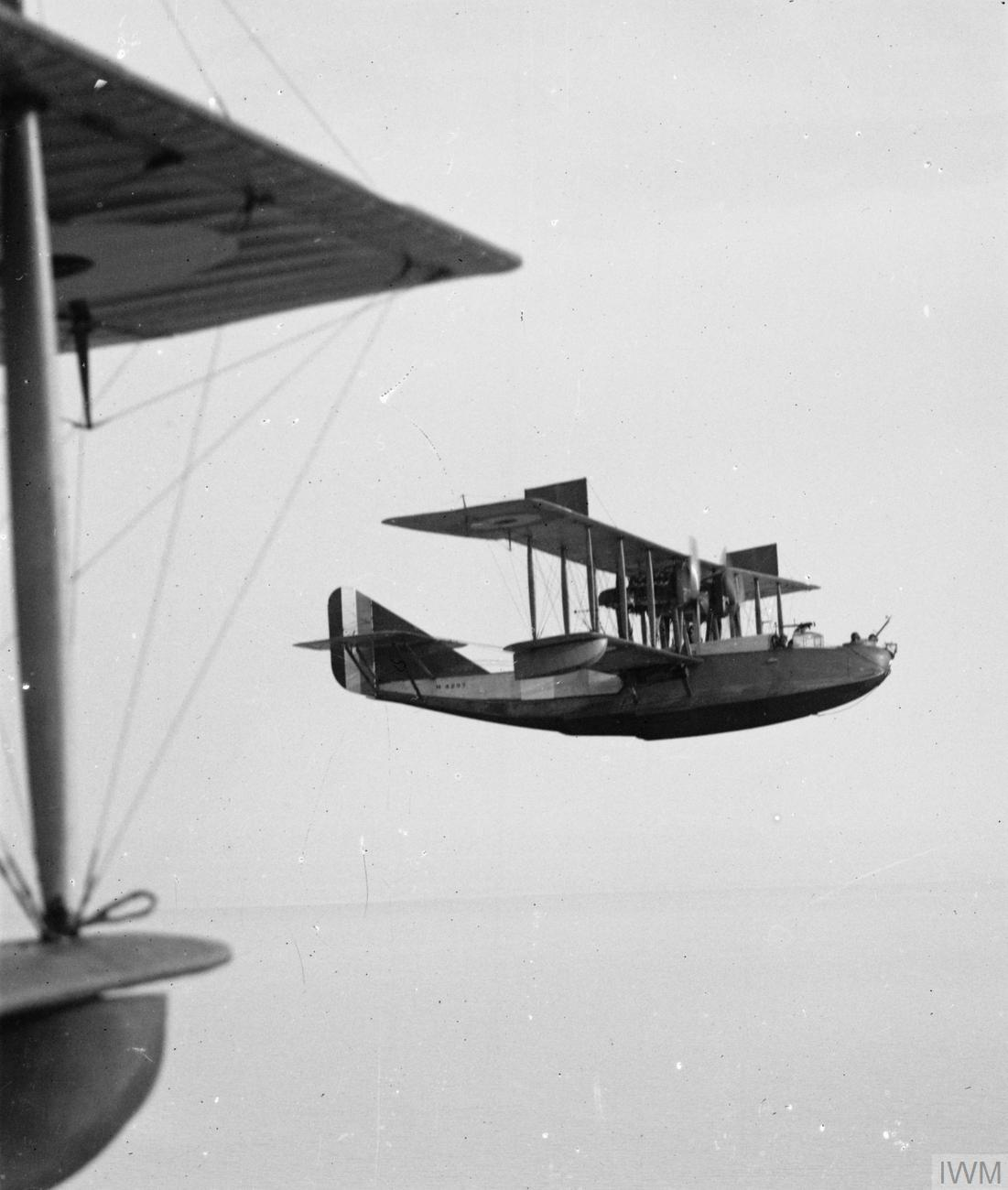 Felixstowe F.2A N4297 in flight.